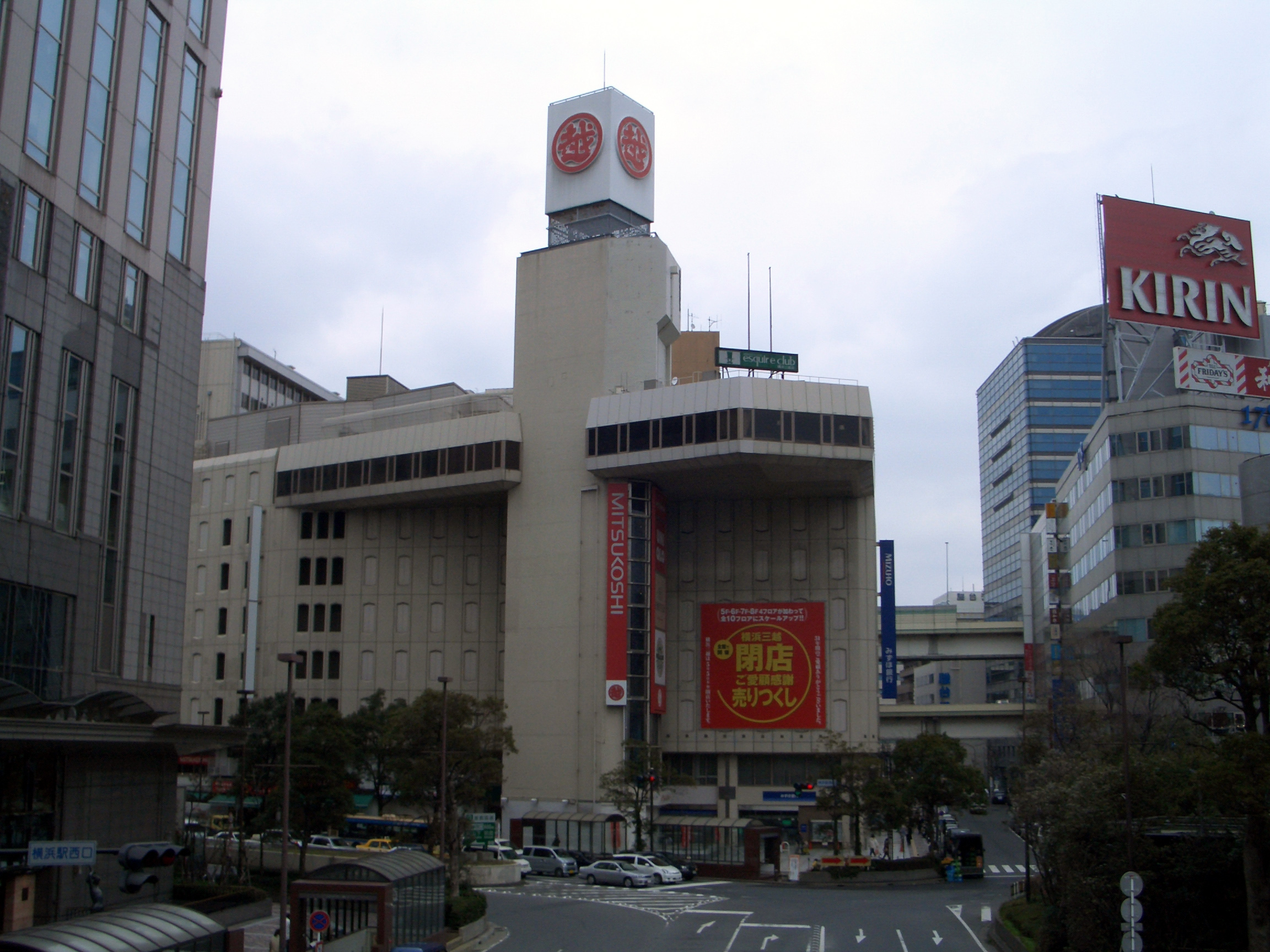 Yokohama Mitsukoshi,1-2-7 Kitasaiwai Nishi-ku Yokohama-City Kanagawa Japan.